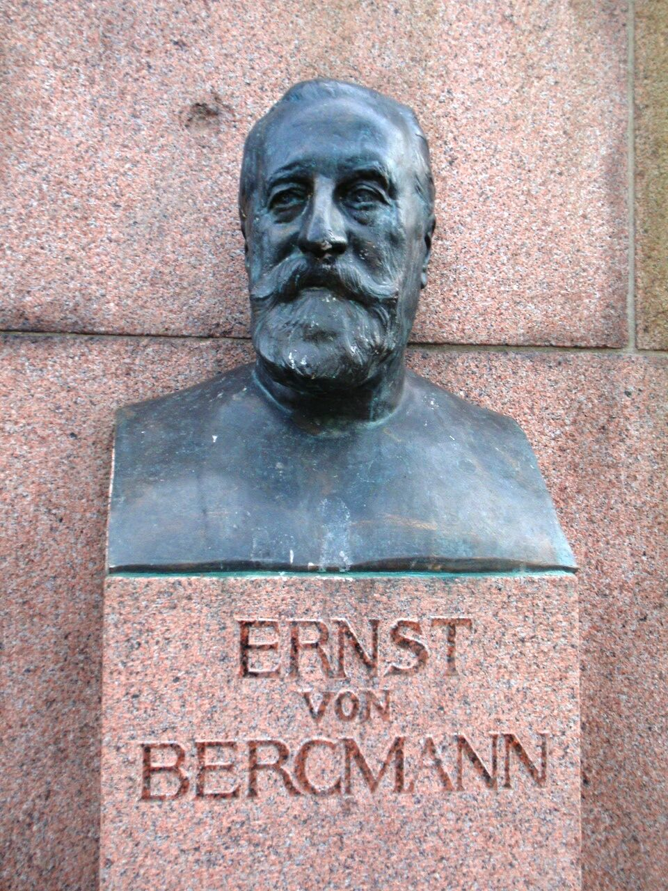 Monument to Ernst von Bergmann (1836–1907) in Tartu by Adolf von Hildebrand (1847–1921).